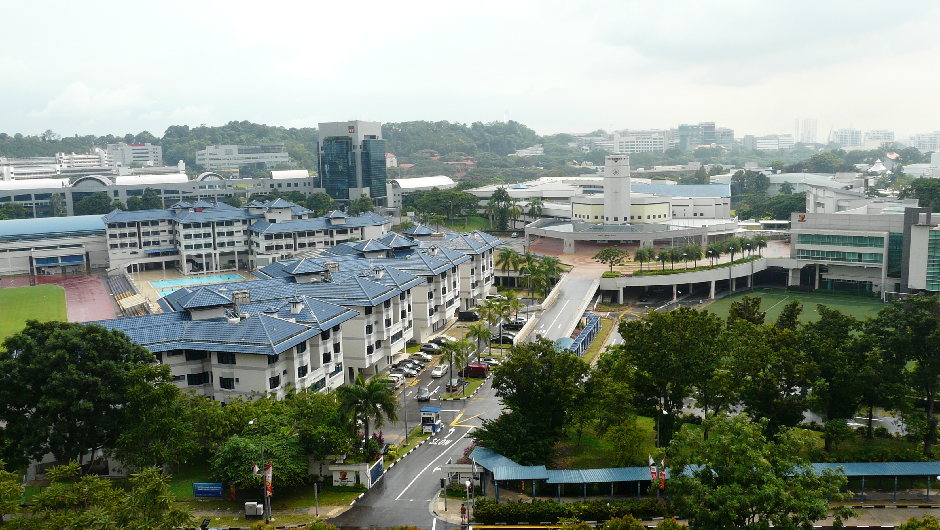 Anglo-Chinese School Independent Pano